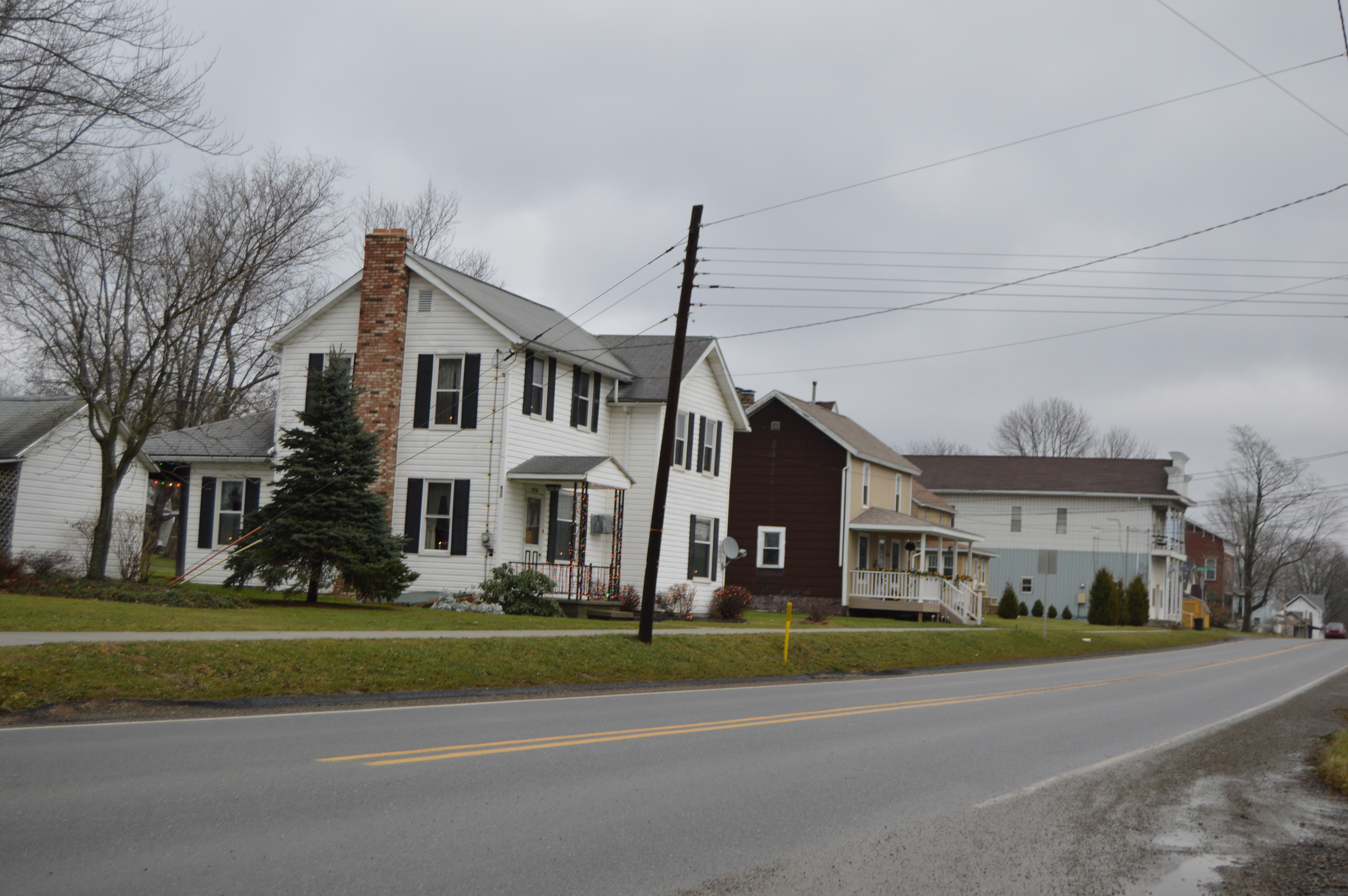 Houses on the northern side of Main Street (U.S. Route 322) in Strattanville, Pennsylvania, United States, seen looking east from the Ridge Avenue intersection.